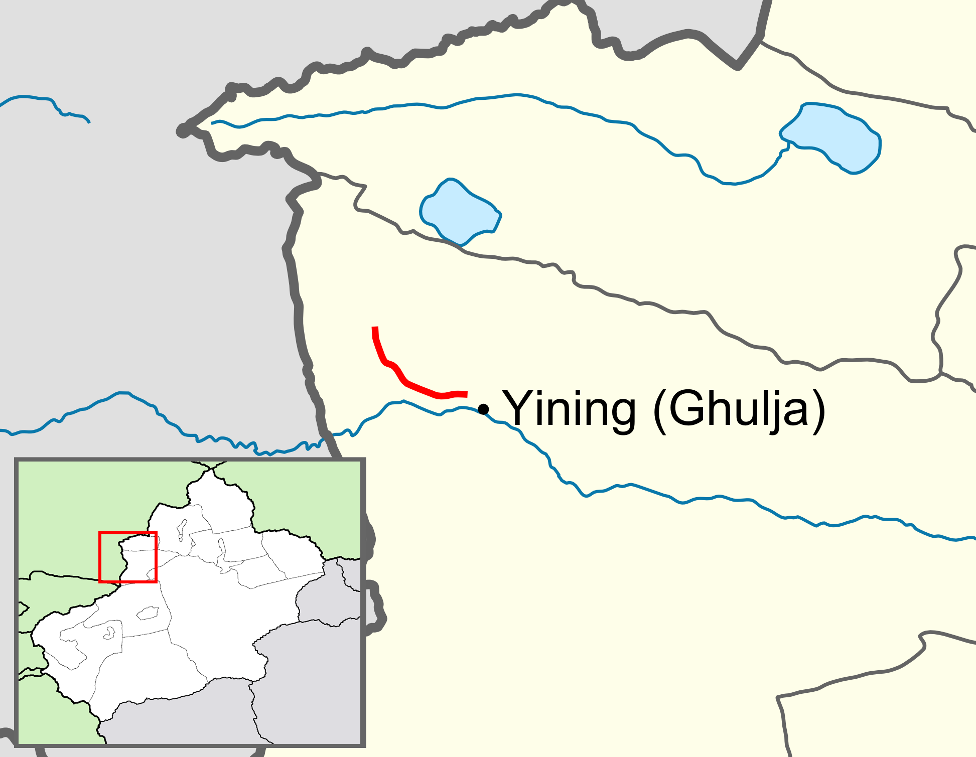 Route map of the G3016 Qingyi Expressway in Xinjiang Uyghur Autonomous Region, China.